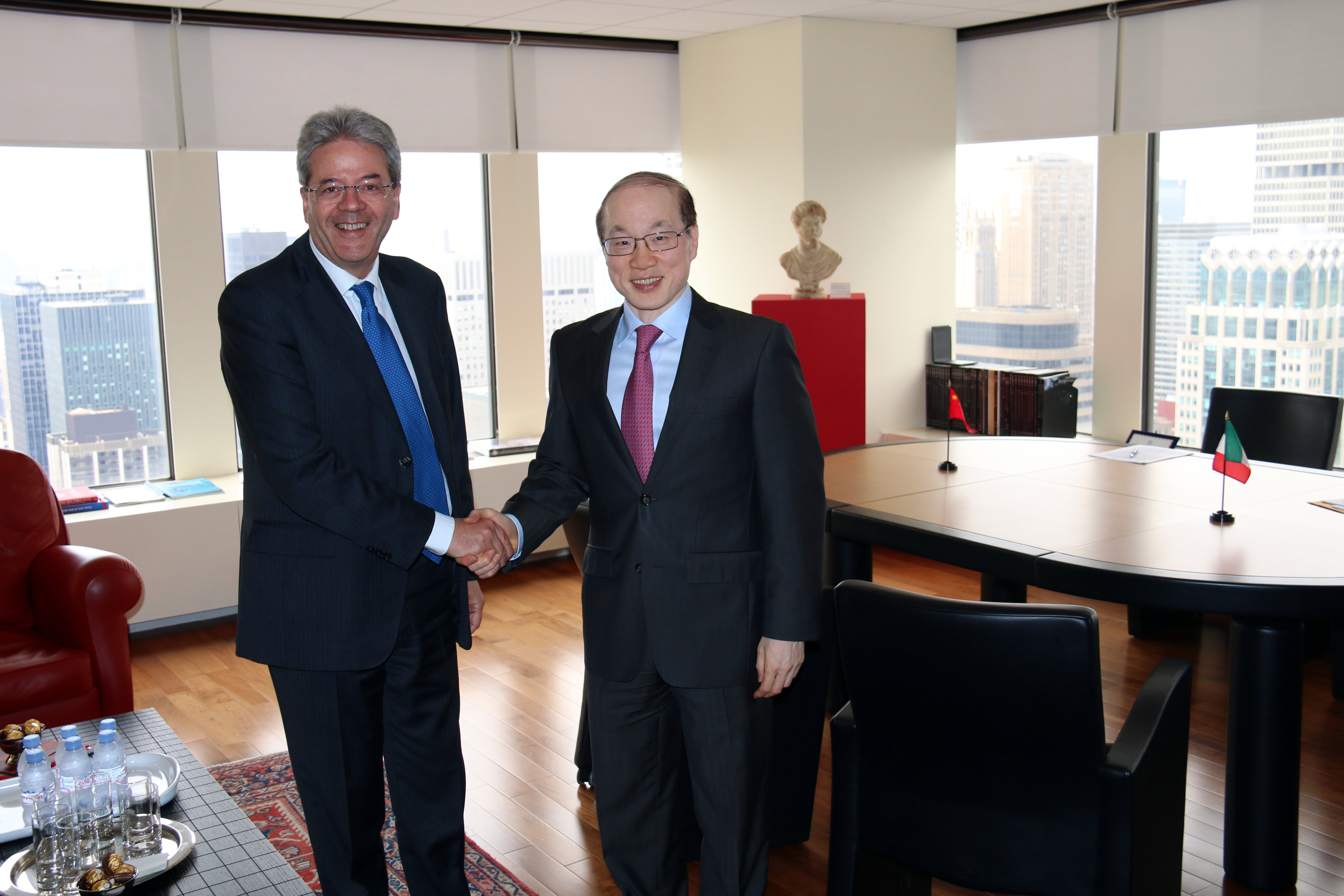 MFA Paolo Gentiloni with Amb. Liu Jieyi, PR of the People's Republic of China to the UN